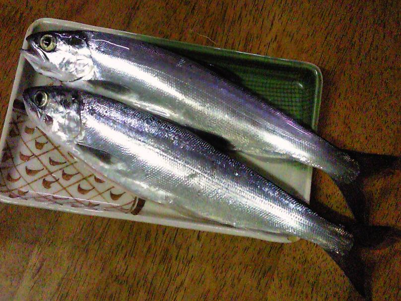 Oncorhynchus nerka